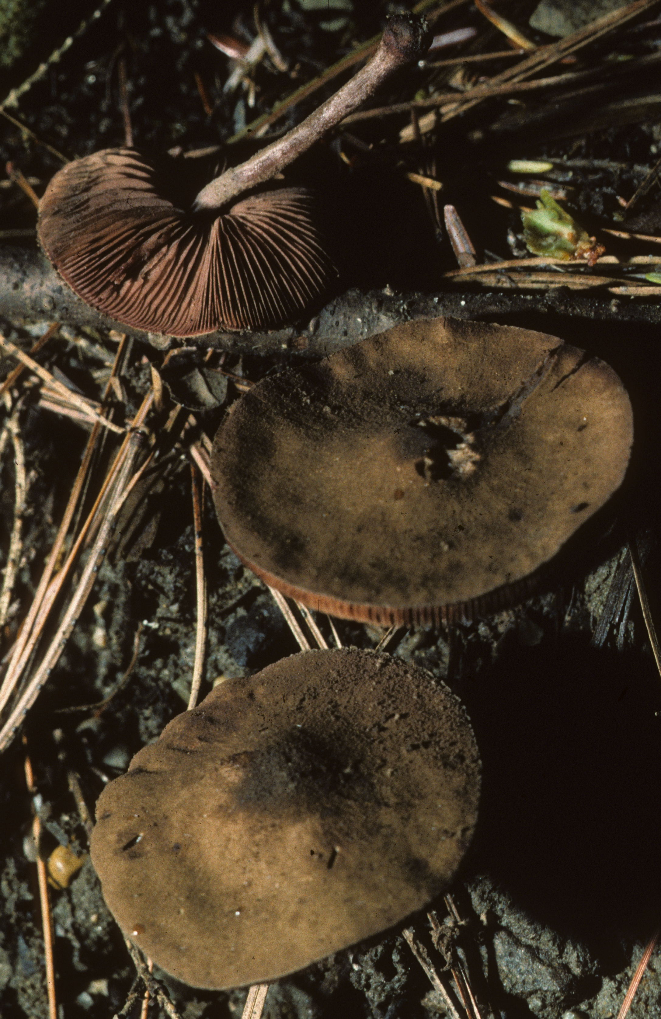 The mushroom Melanophyllum haematospermum (Bull.) Kreisel (syn. Melanophyllum echinatum[1] (Roth) Singer)